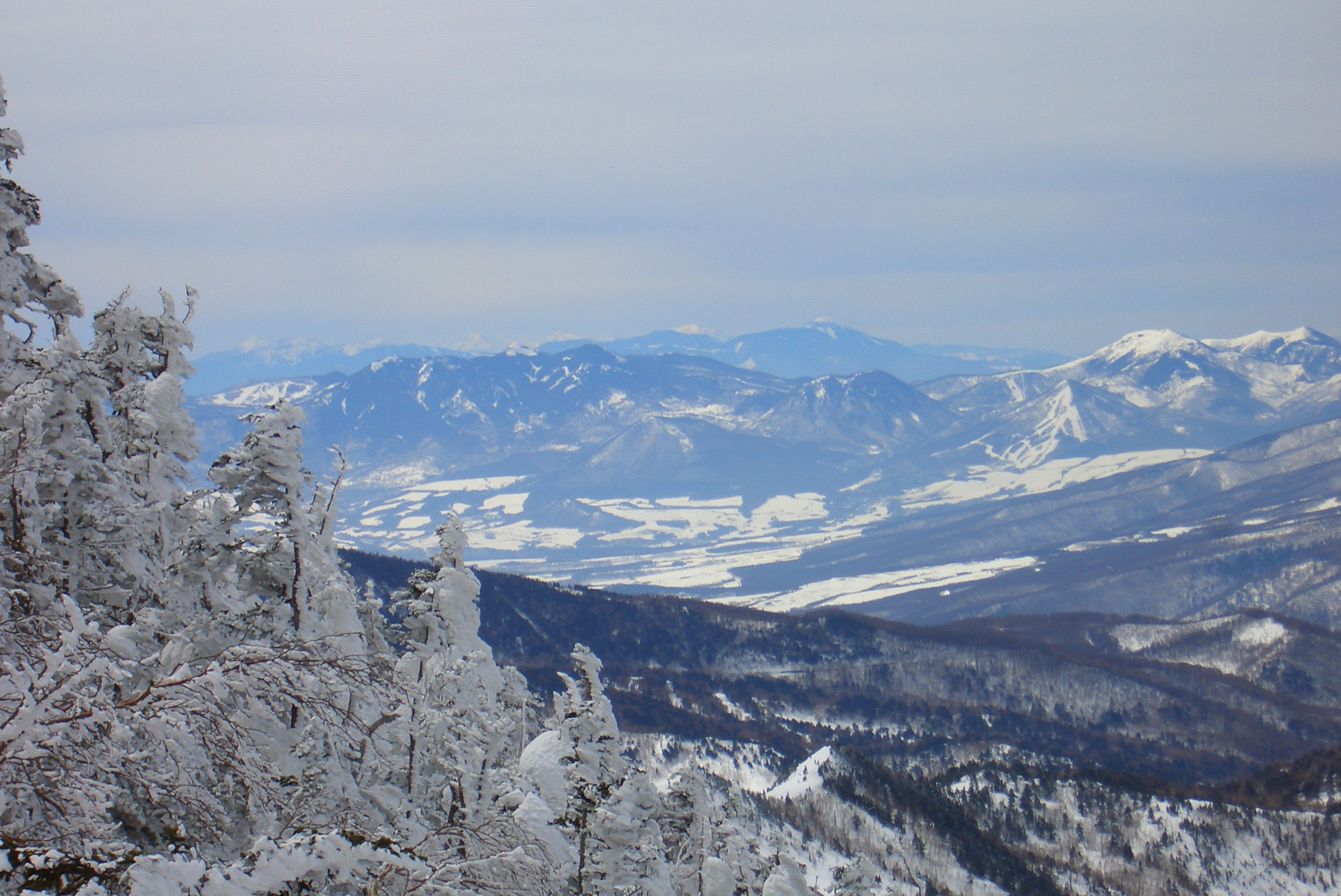 Eboshi Volcano Group and Kazuno Snow Area seen from SSW. Shot on Omote Manza Snow Park in Mount Kusastu-shirane.